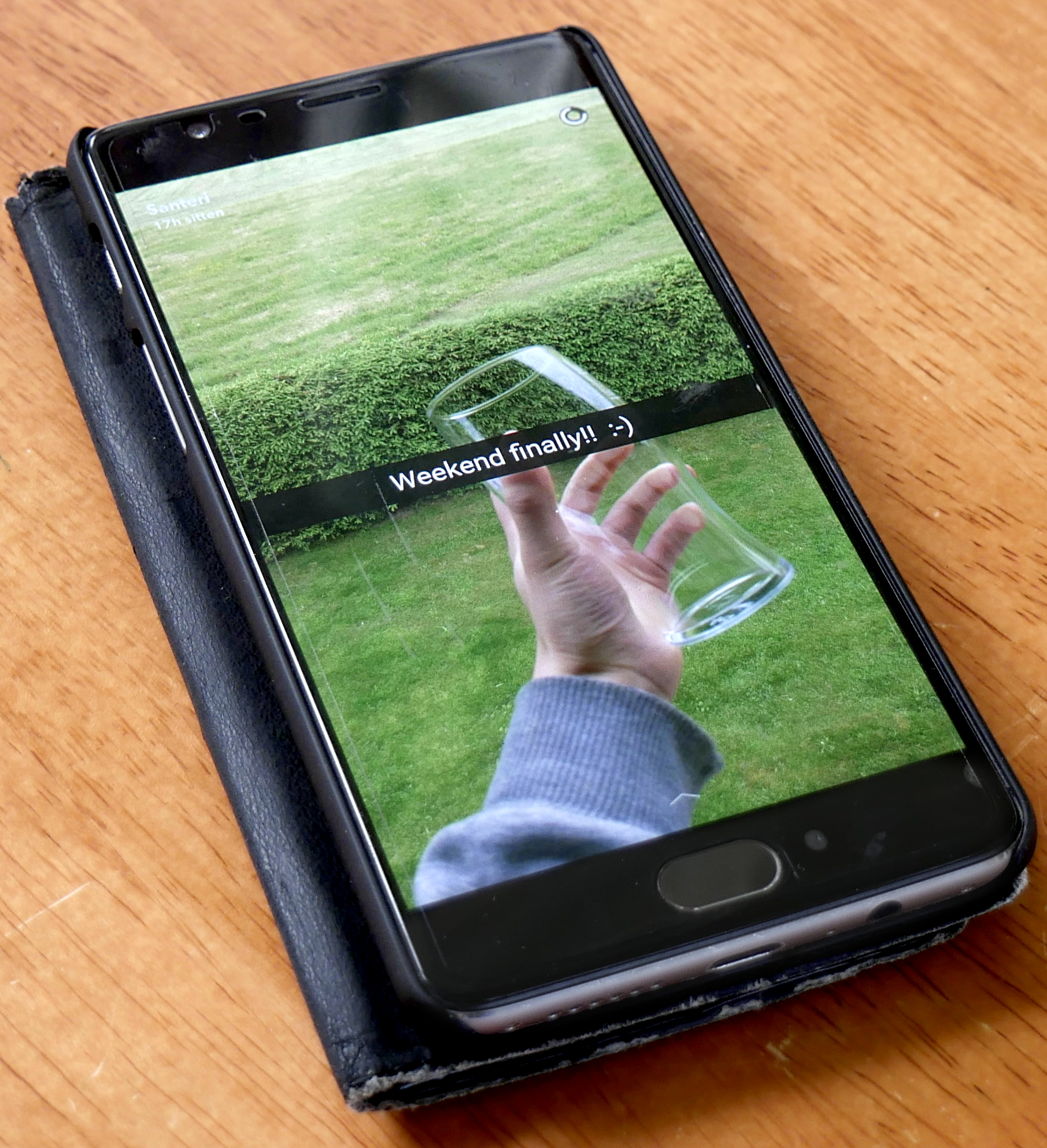 Snapchat snap illustration.